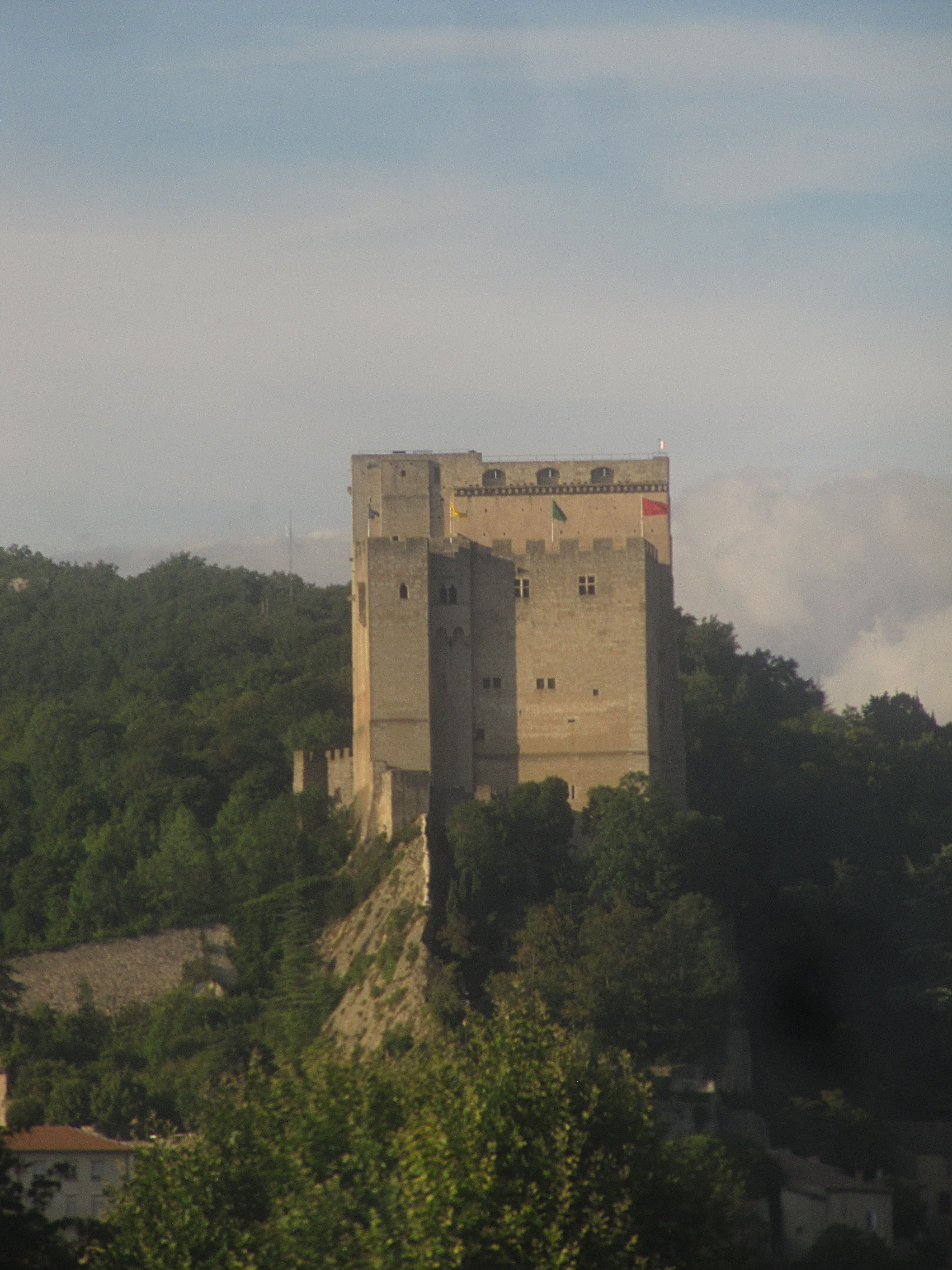 Crest Tower, near Valence, Drôme, France.